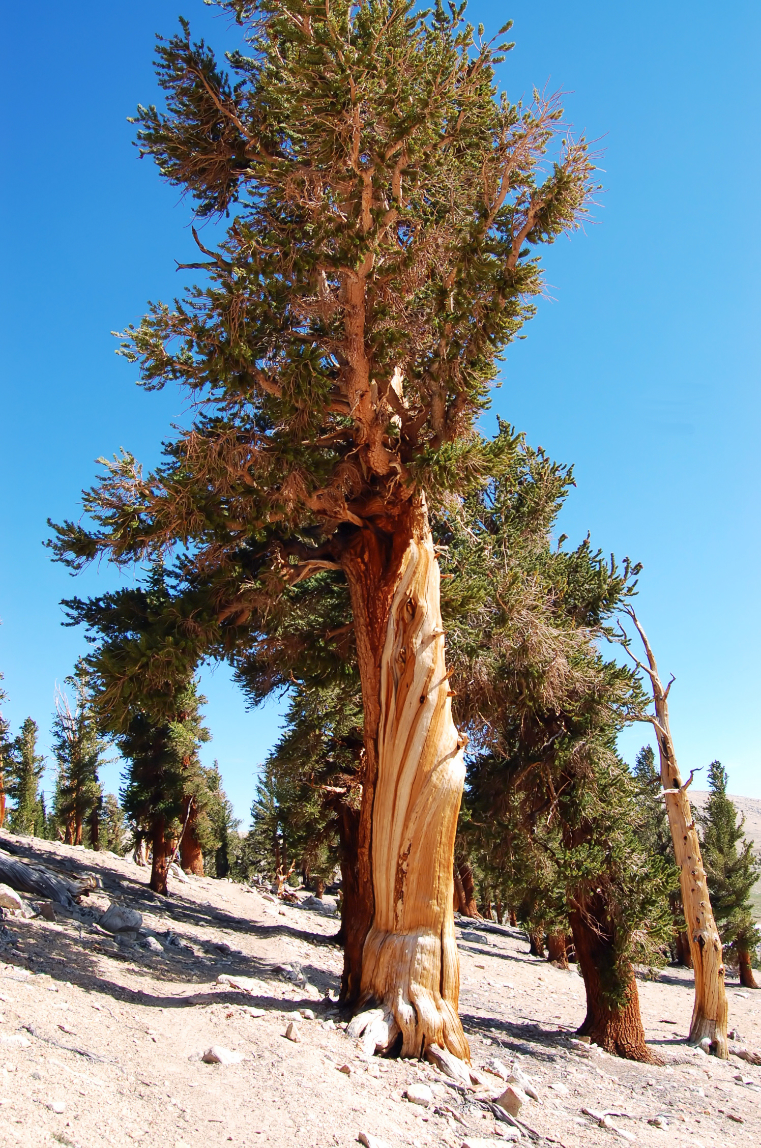 Pinus balfouriana var. austrina, old tree, Kings Canyon National Park, California 36°37'27"N 118°23'03"W, 3455m altitude